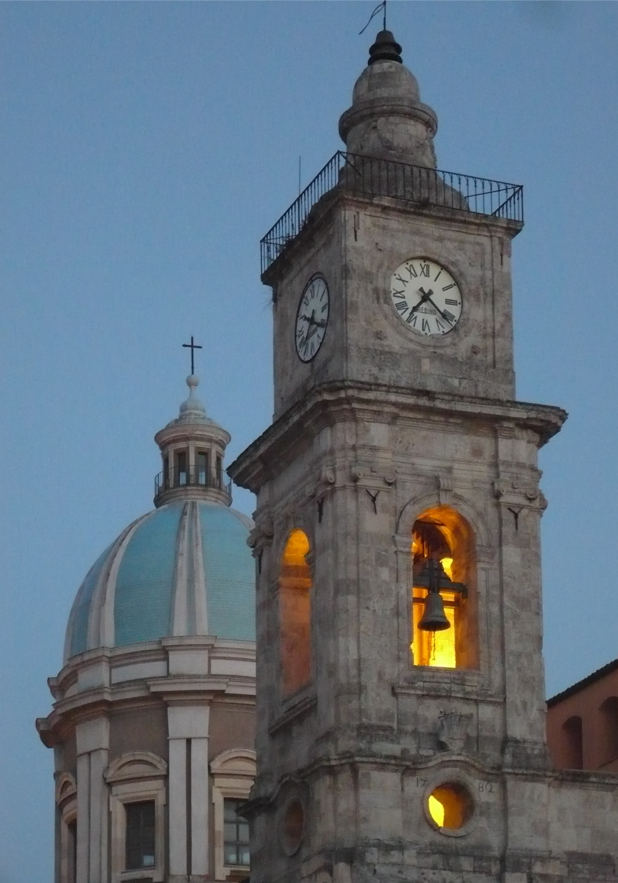 Night view of the bell tower and the dome of Santa Maria Nuova in Caltanissetta September 14, 2013